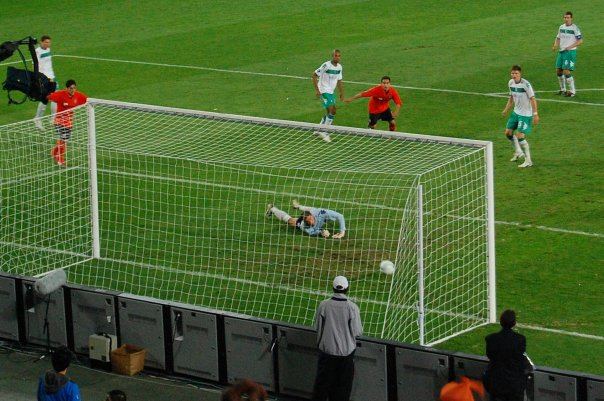 Jádson goal 2009 UEFA Cup Final